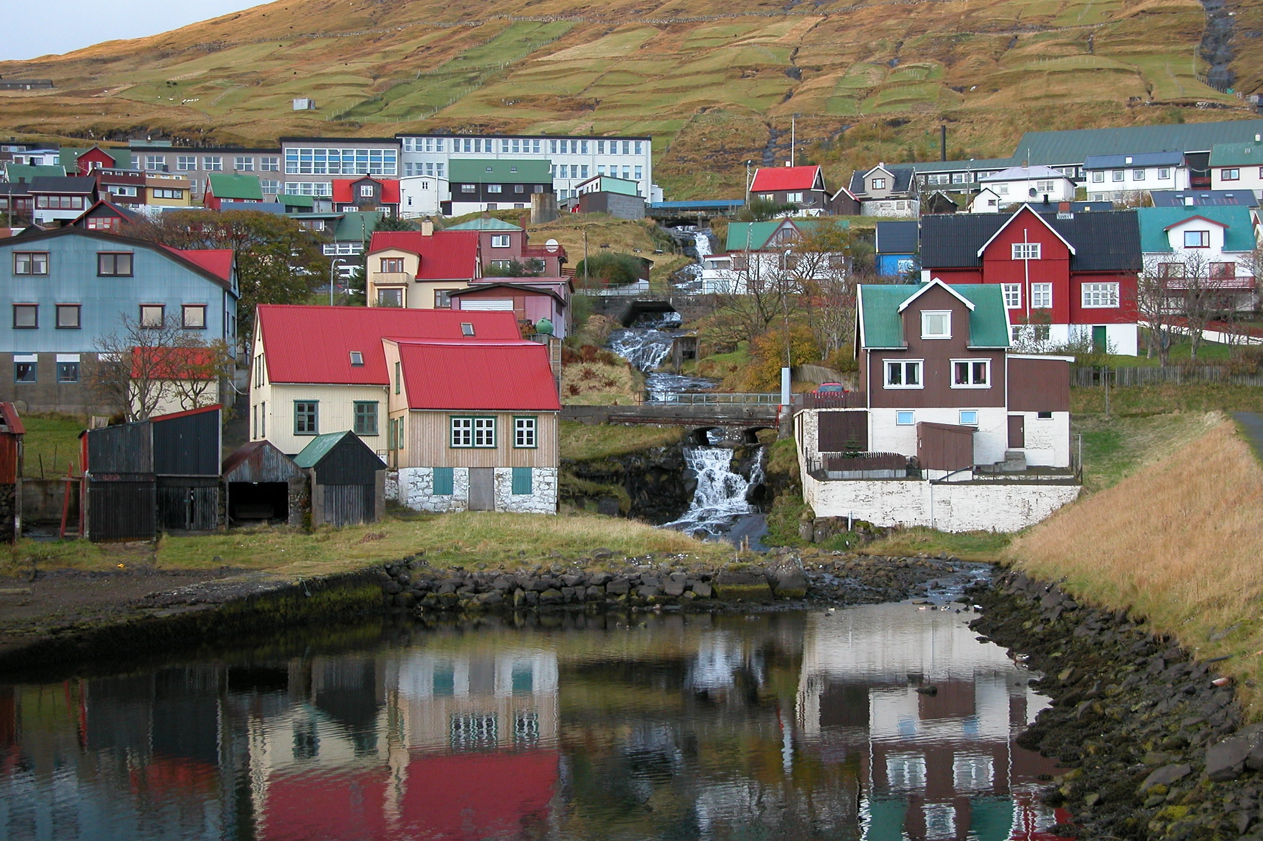 Vestmanna on Streymoy, Faroe Islands